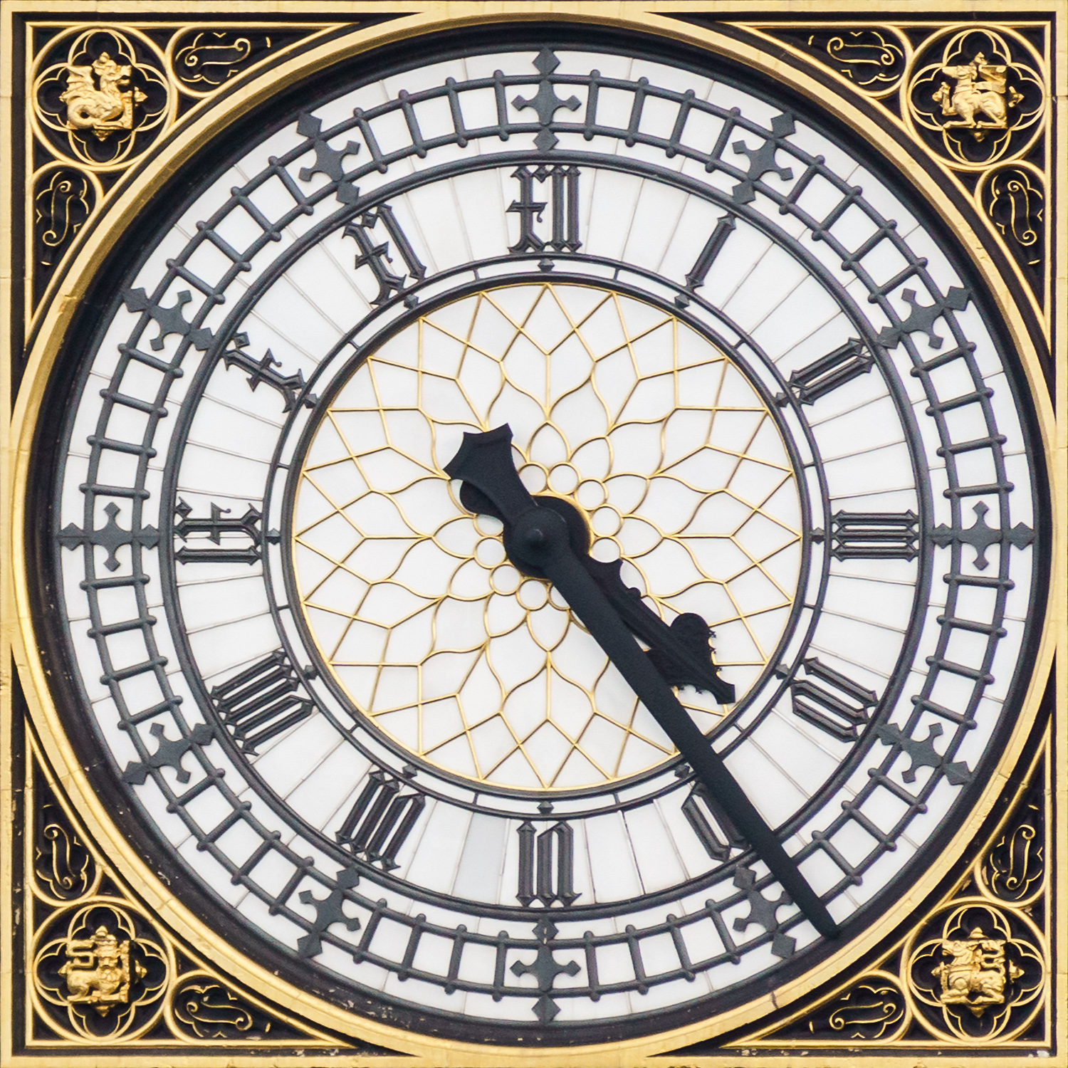 The clock face of Big Ben (Elizabeth Tower). Wikidata has entry Q62408 with data related to this building.